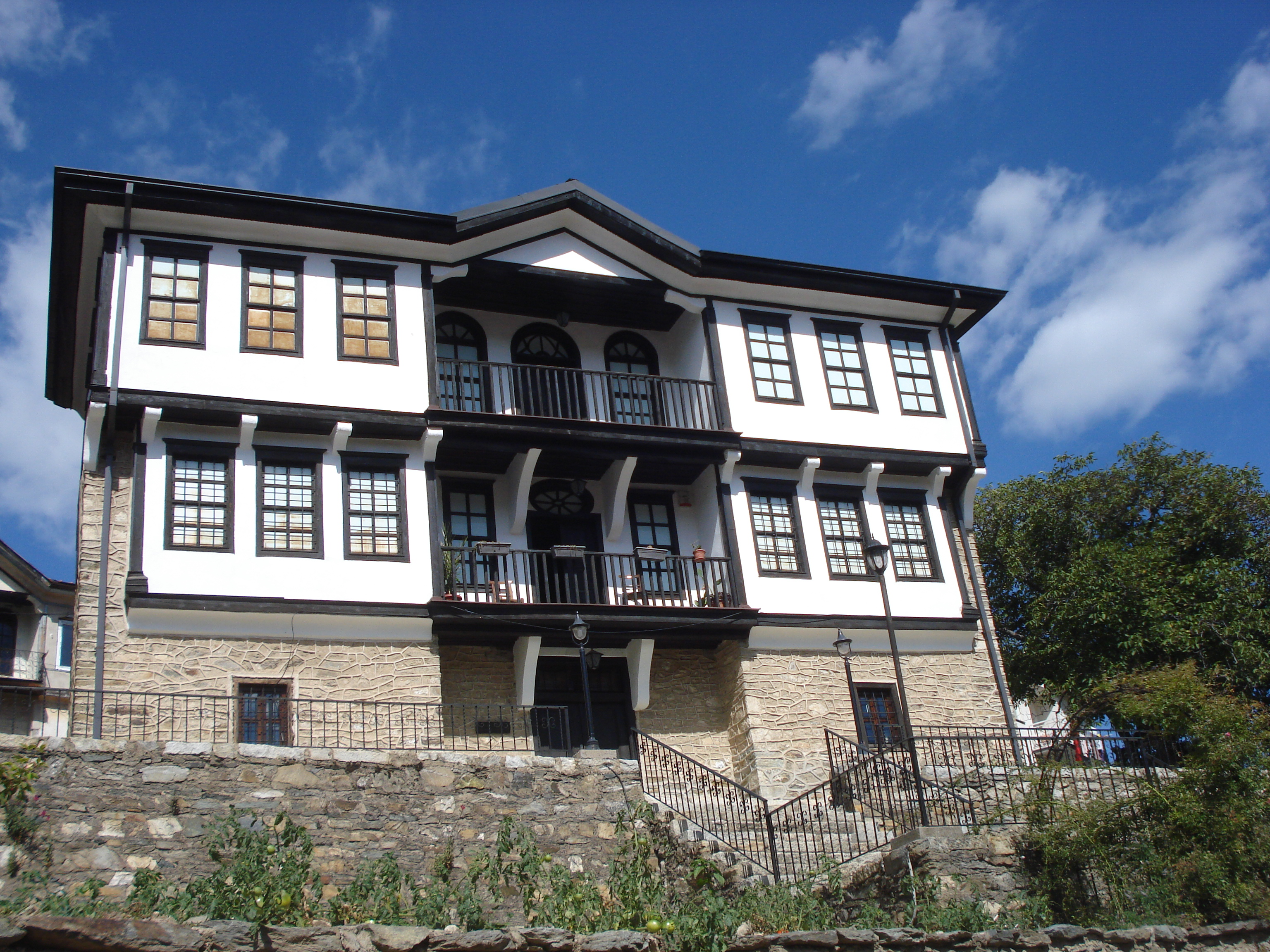 Nikola Martinoski gallery in Krusevo